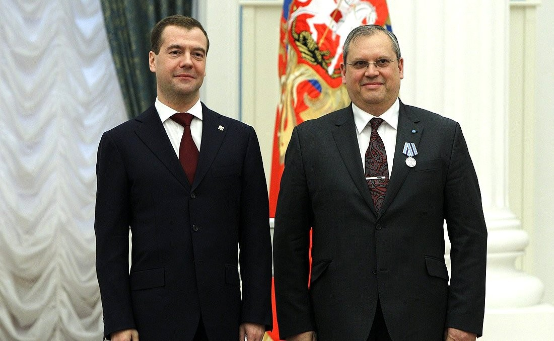 Romanian cosmonaut and researcher Dumitru Prunariu was awarded the Medal for Merits in Space Exploration.